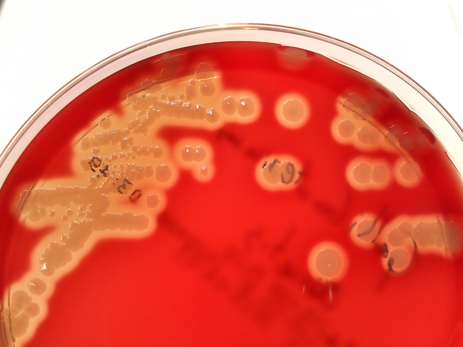 Gallibacterium anatis after 48 hours incubation at 37oC on the columbia agar with 5% sheep blood ("blood agar").